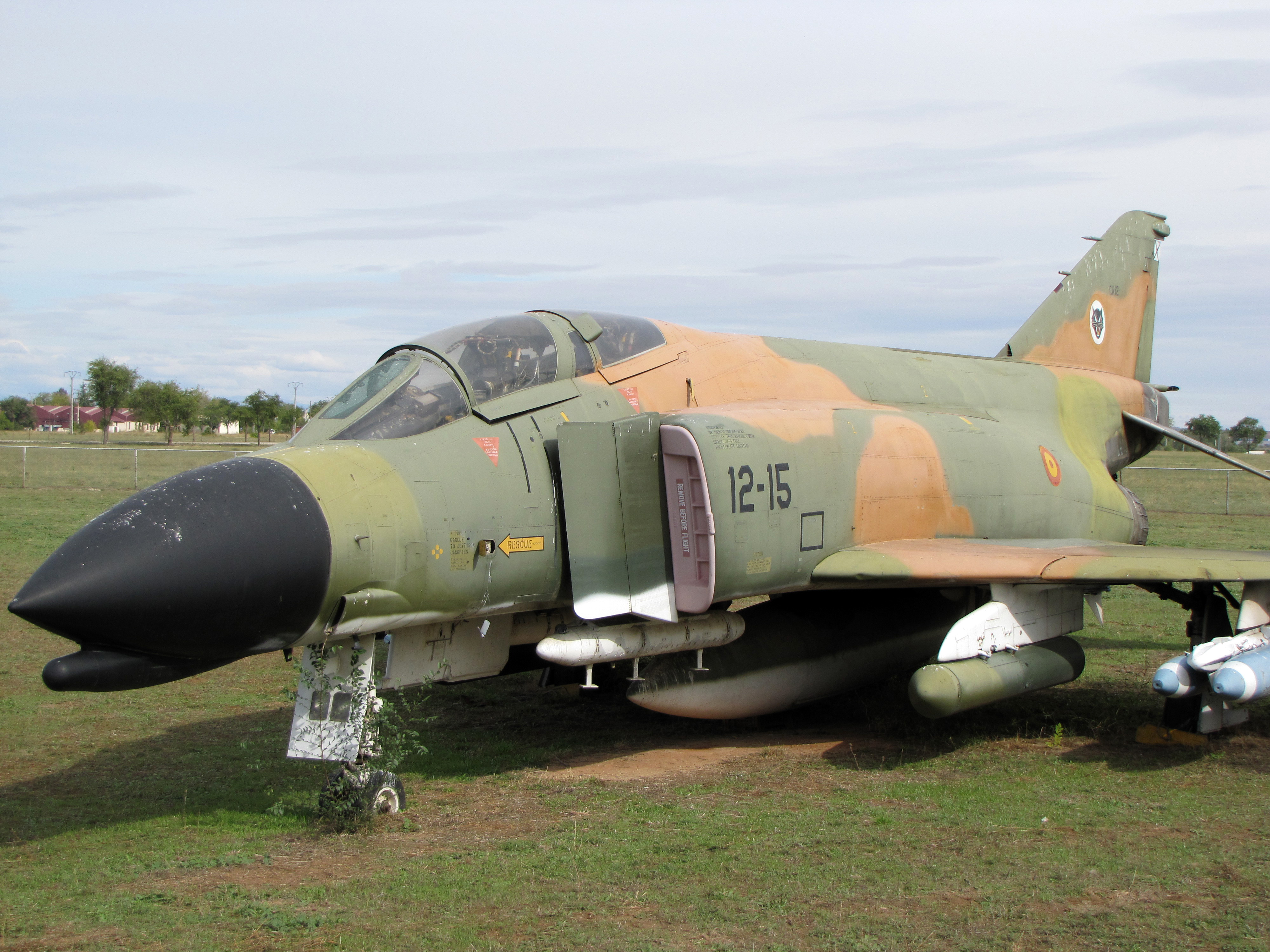 McDonell Douglas F-4C Phantom II Spain Air Force C.12-19 / 12-15 C/N 1257 The tail section belongs to a RF-4C. Thanks Angel.